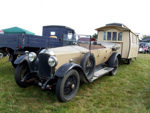 Flintham Ploughing Match, Newton from DVLA; made 1923, 1st reg. 25 May 1923, 3969cc